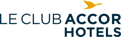 Logo of Le Club AccorHotels